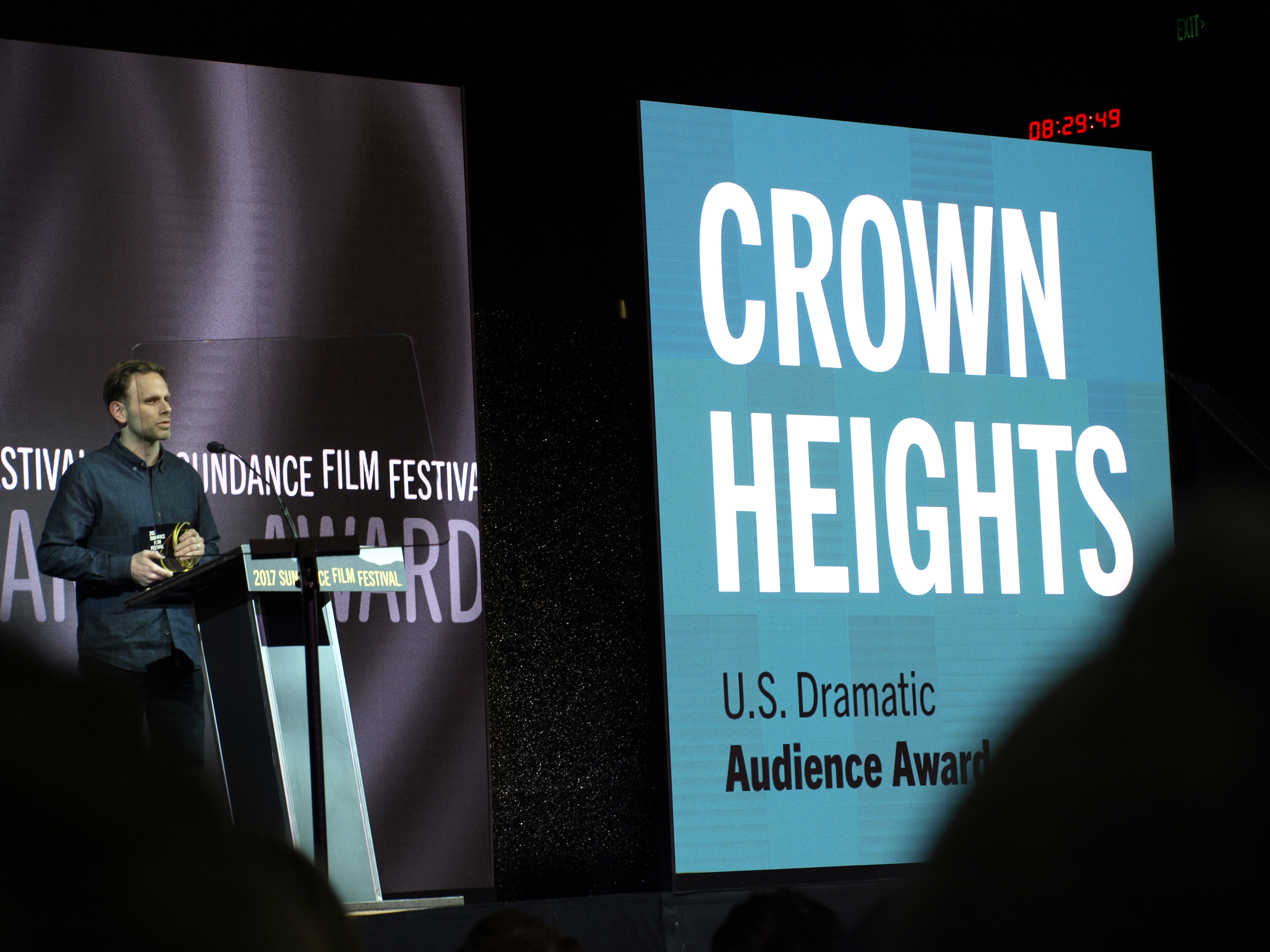 "Crown Heights" U.S. Dramatic Audience Award at Sundance 2017, Park City UT